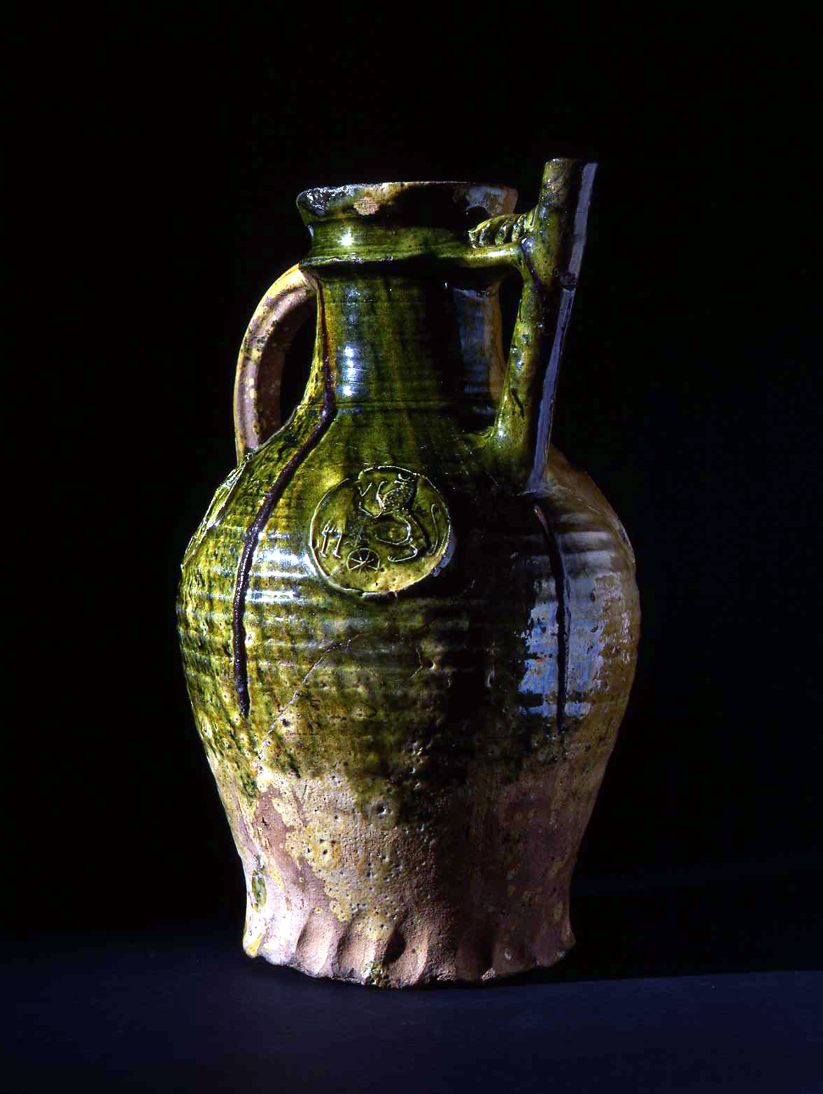 Jug with seal motif, possible based on seal of Saer de Quincy. Copper green glaze on one side, yellow glaze on the other. Iron oxide strips.